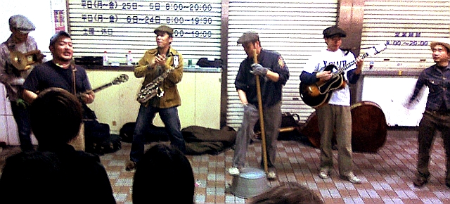 Little fats & Swingin'hot shot party @ Kichijoji Station, 20:50, 14th May 2006